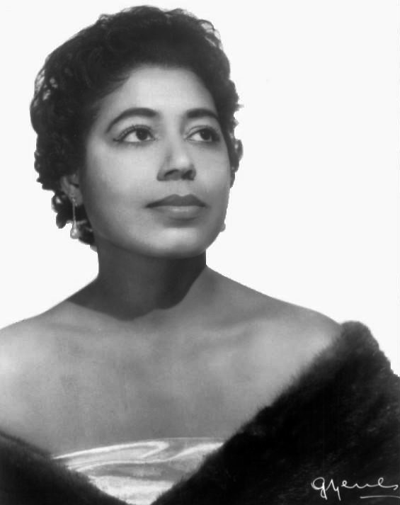 Publicity photo of soprano Mattiwilda Dobbs.